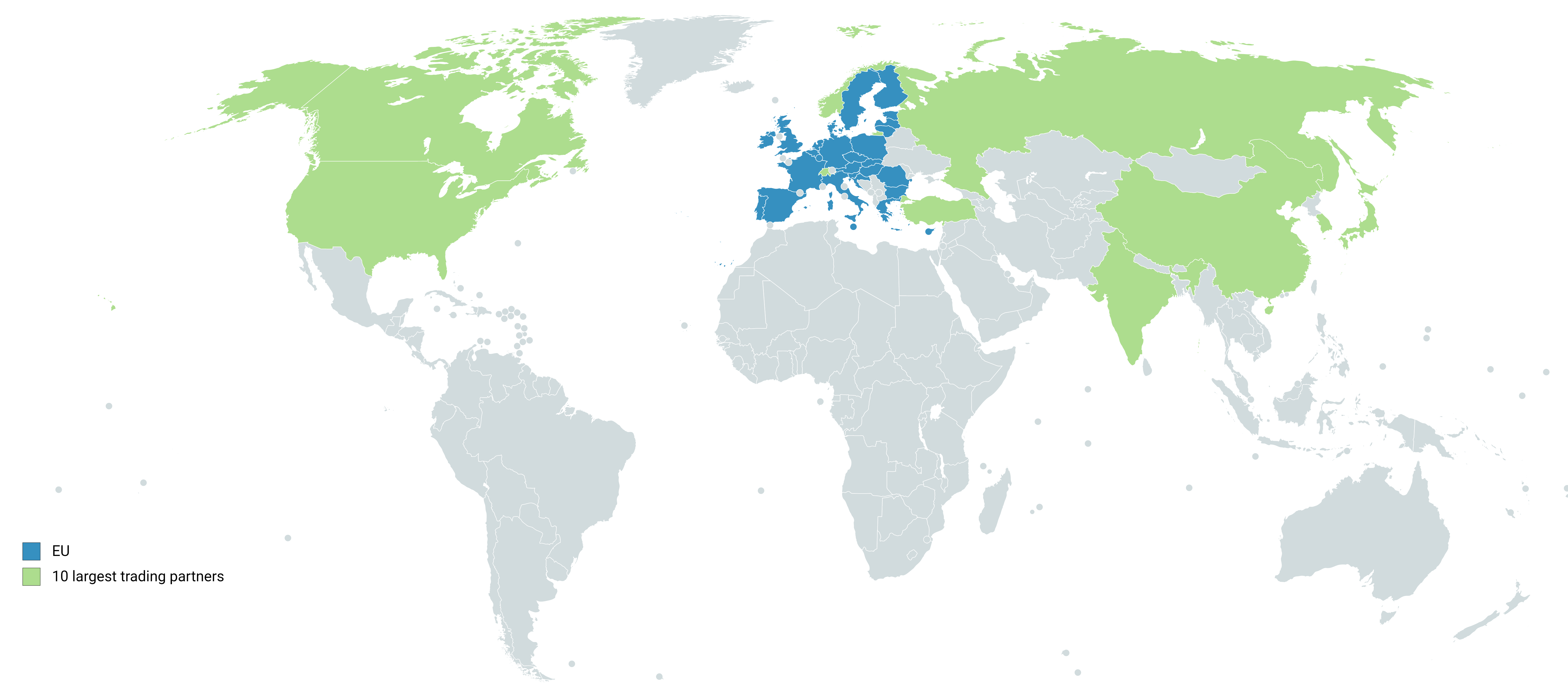 10 largest trading partners